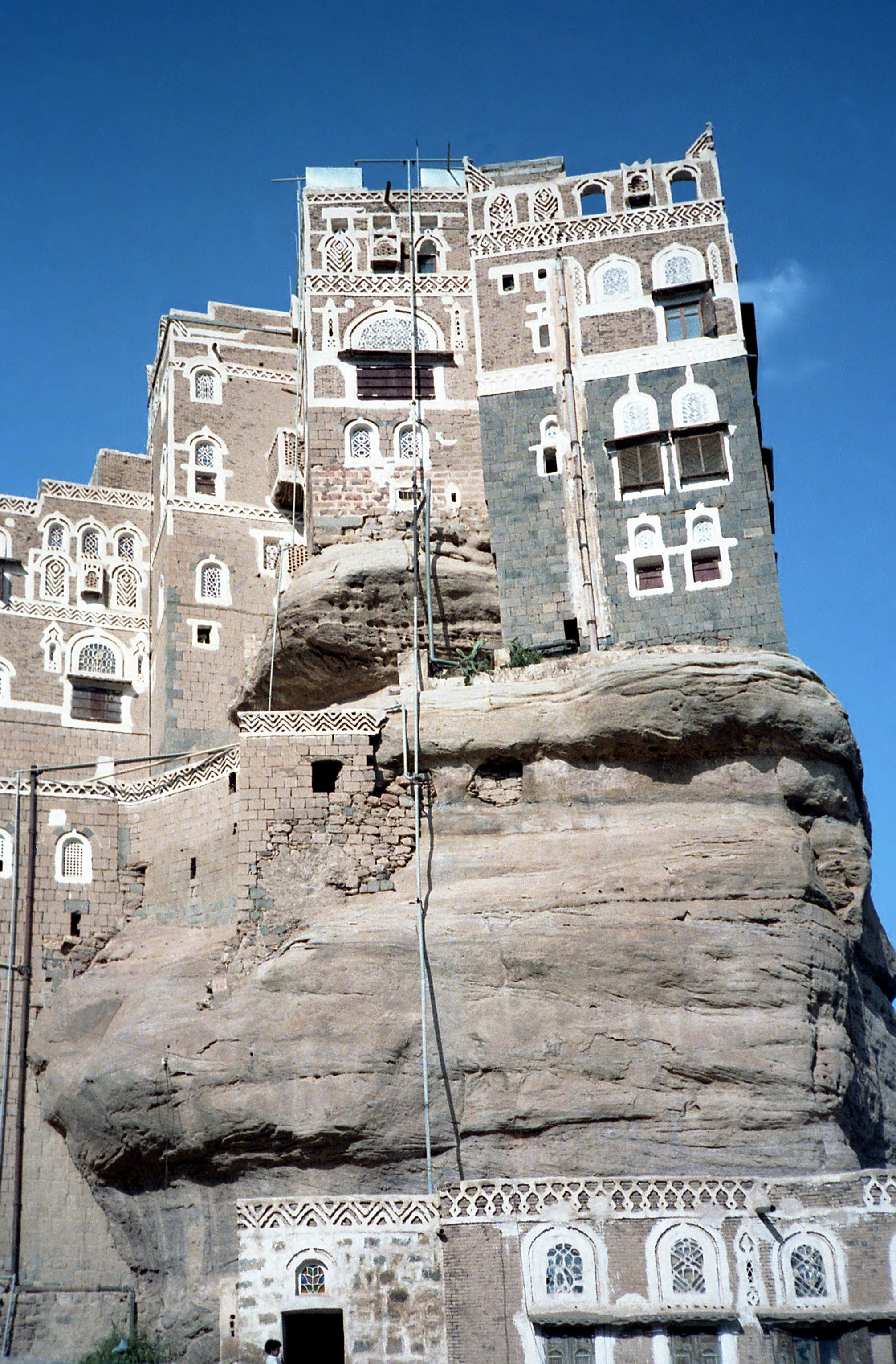 Dhar Al Hajjar, summer palace of Imam Yahya, Wadi Dhar, Yemen